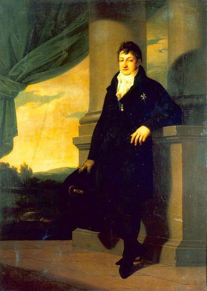 Vasily Sergeevich Troubetskoy (24.03.1776 – 10.02.1841) russian general